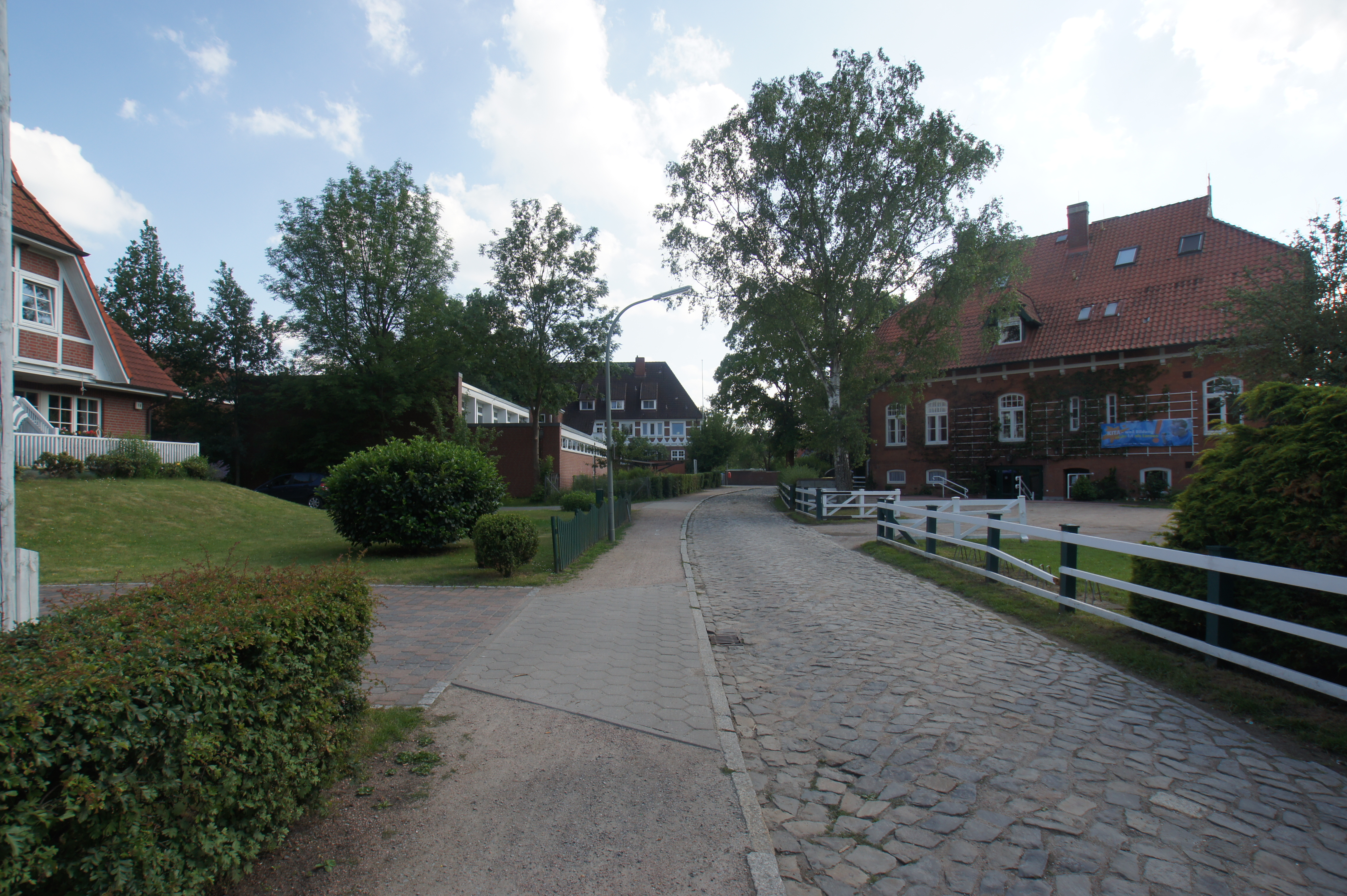 Hamburg (Altengamme), Germany: Overview at the Kirchenstegel Street